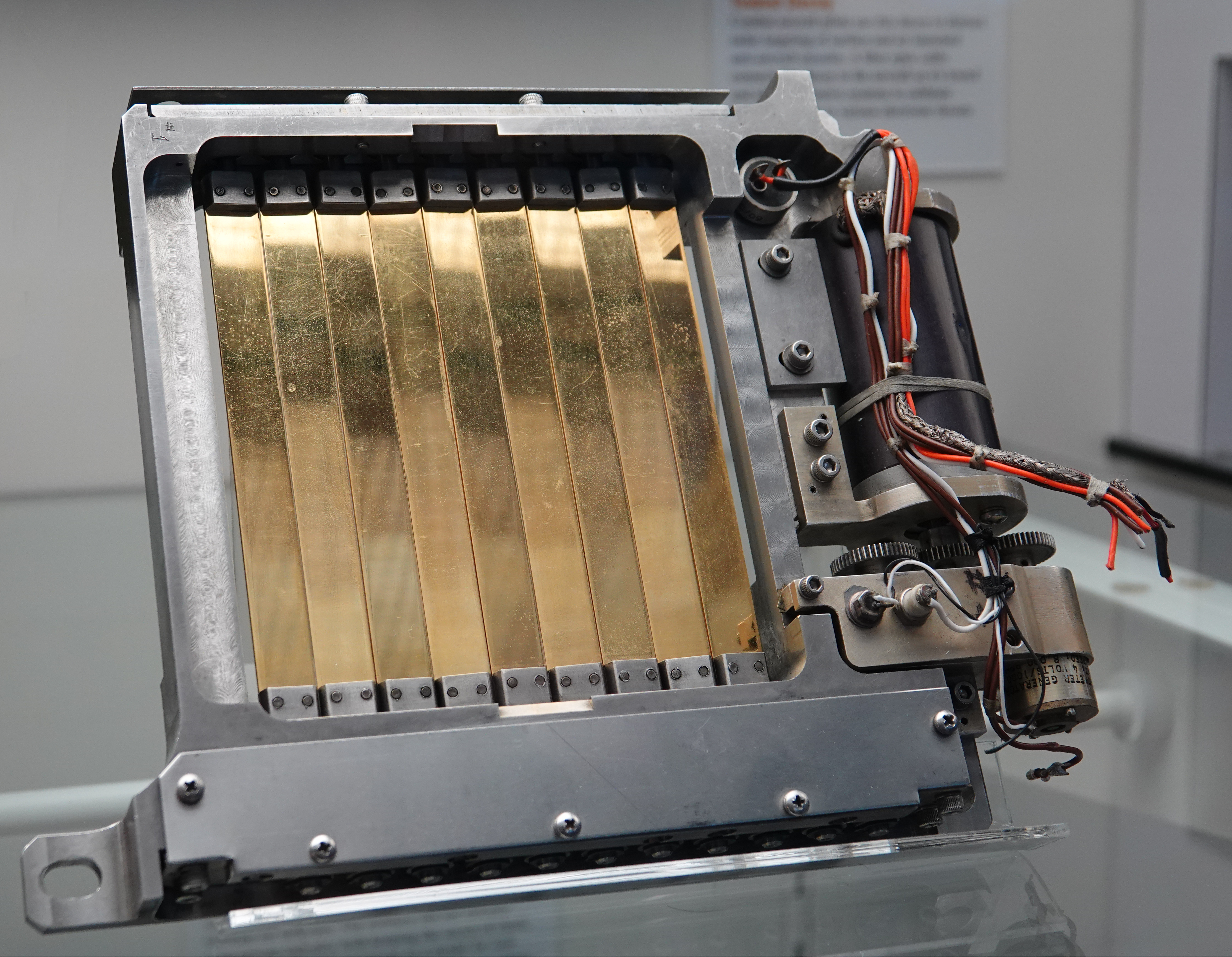 This infrared jammer tricked missiles tracking the hot exhaust of an aircraft by modulating a competing heat signature. By rapidly opening and closing the shutters on the “venetian blind,” a “hot brick” jammer could cause the missile’s heat seeker to enter an error mode and stop tracking the aircraft. Picture taken at the National Air and Space Museum's Steven F. Udvar-Hazy Center in Chantilly, Virginia, USA.